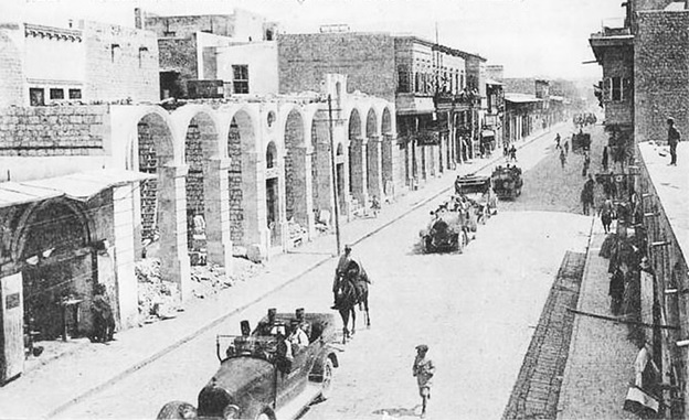 French general Henri Gouraud passing through al-Khandaq Street in the Old City of Aleppo. This is a version of this file, which has been cropped and undergone quality improvements.